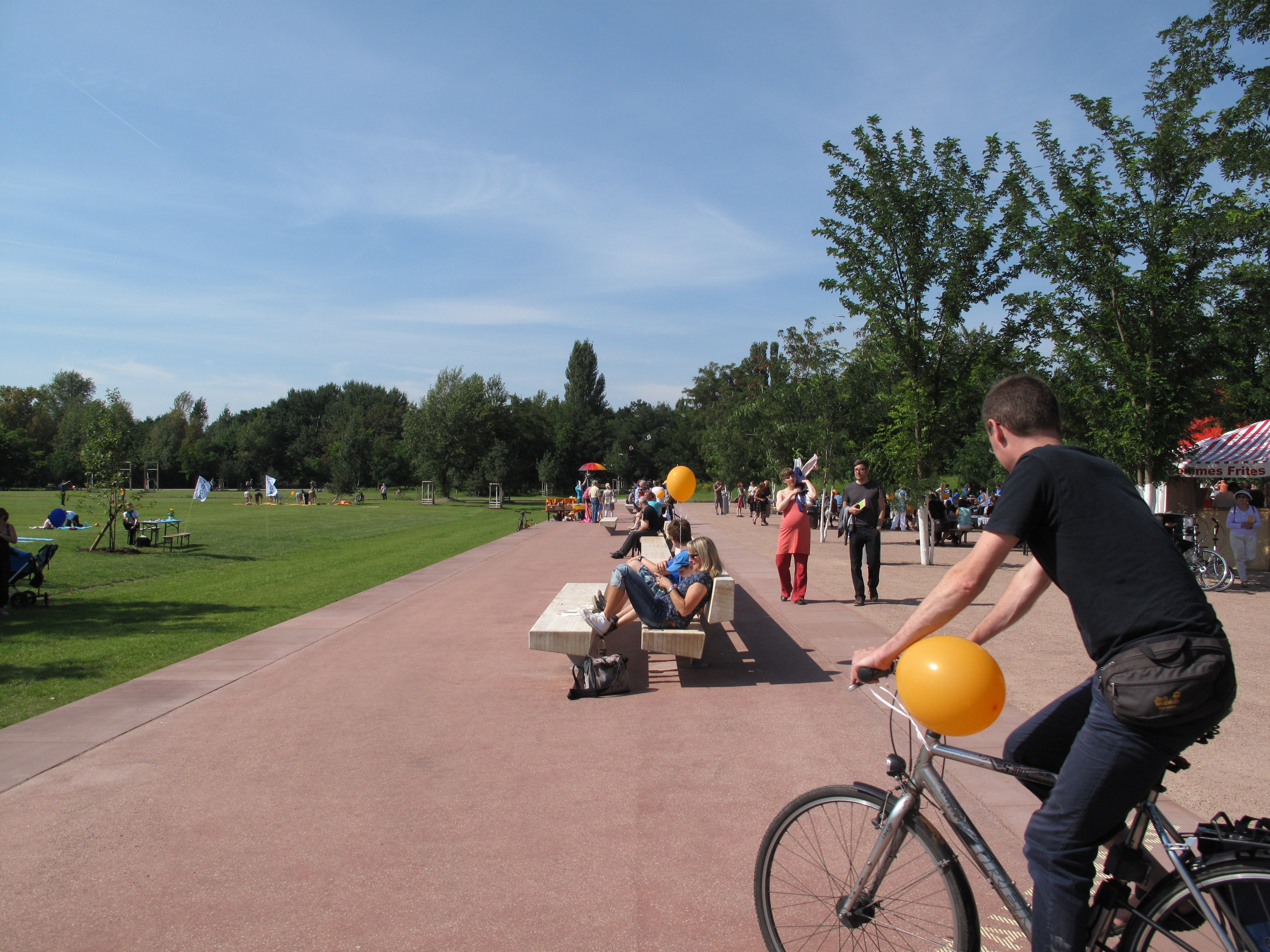 Kreuzberger Wiese (german for: Kreuzberg's green field) and central place of the Ostpark nearby the rail loading ramp of the German Museum of Technology. The Ostpark is a 17 hectare part of the Park am Gleisdreieck in Berlin-Kreuzberg, Germany. The Ostpark was opened on September 2, 2011.